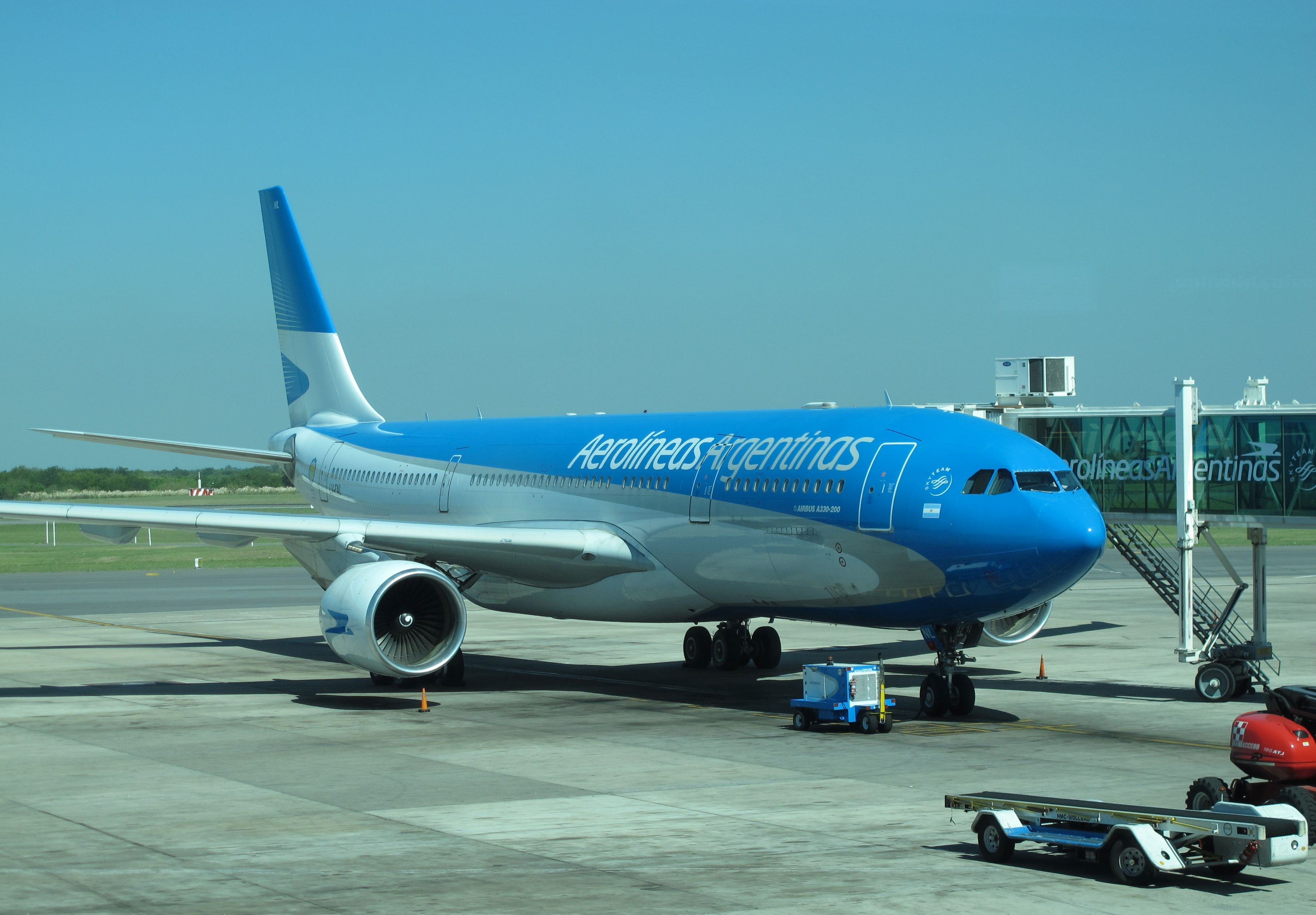 Aerolineas Argentinas Airbus A330 (LV-FNL) at the Buenos Aires-Ezeiza Ministro Pistarini International Airport (EZE/SAEZ)